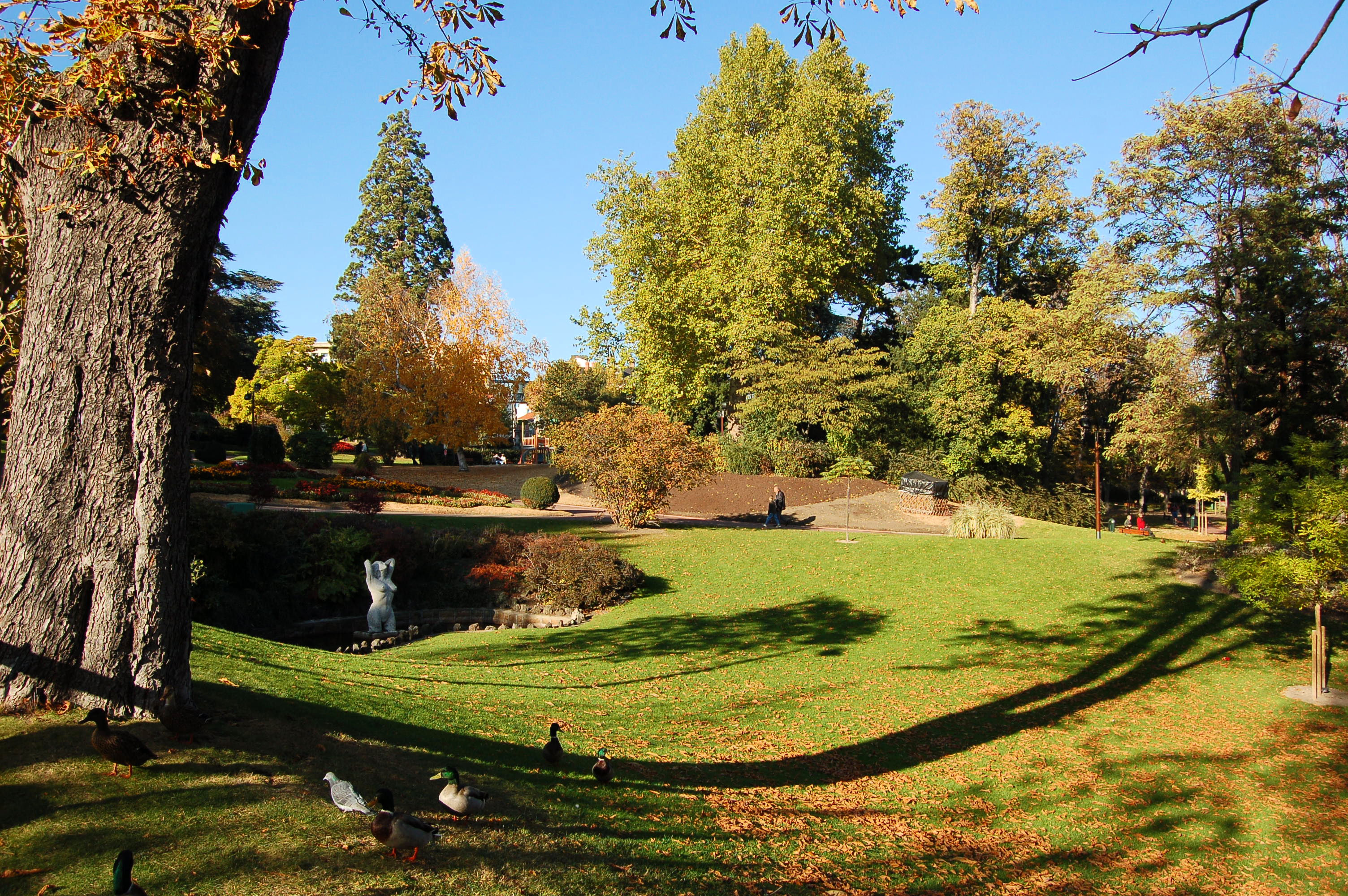 Jardin Lecoq (Clermont-Ferrand, France)